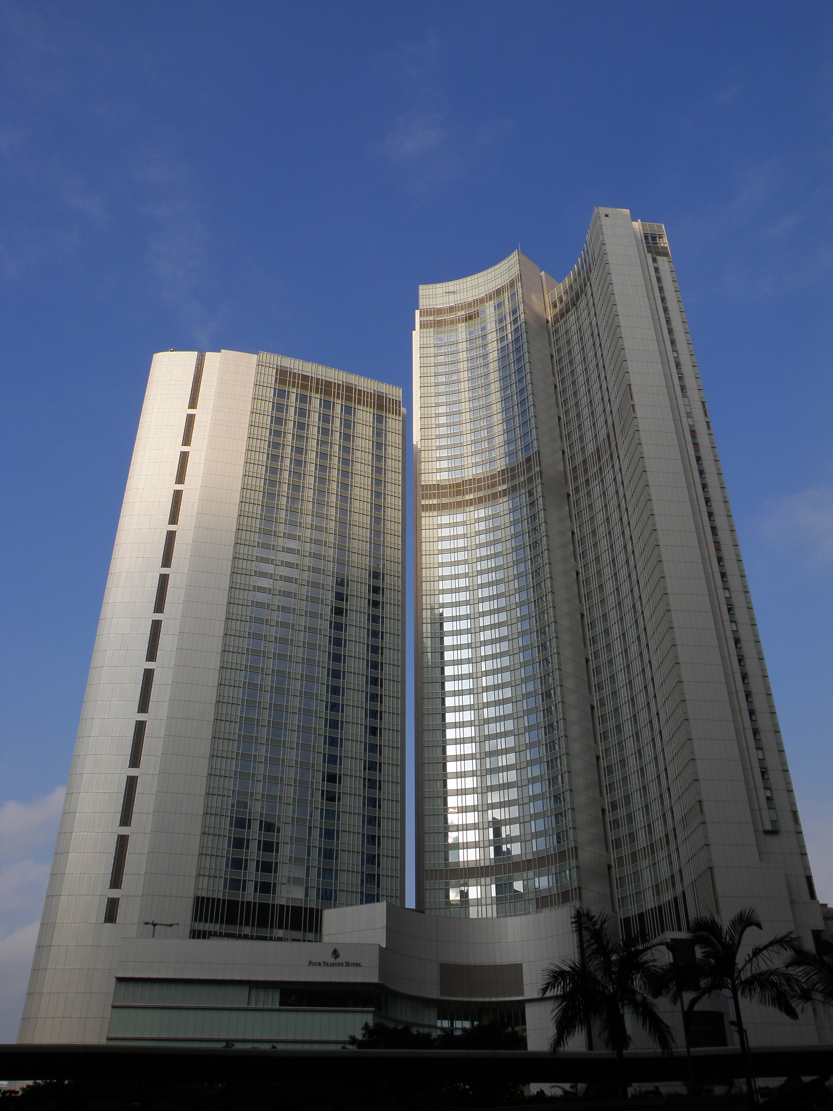 Four Seasons Hotel in Central, Hong Kong.